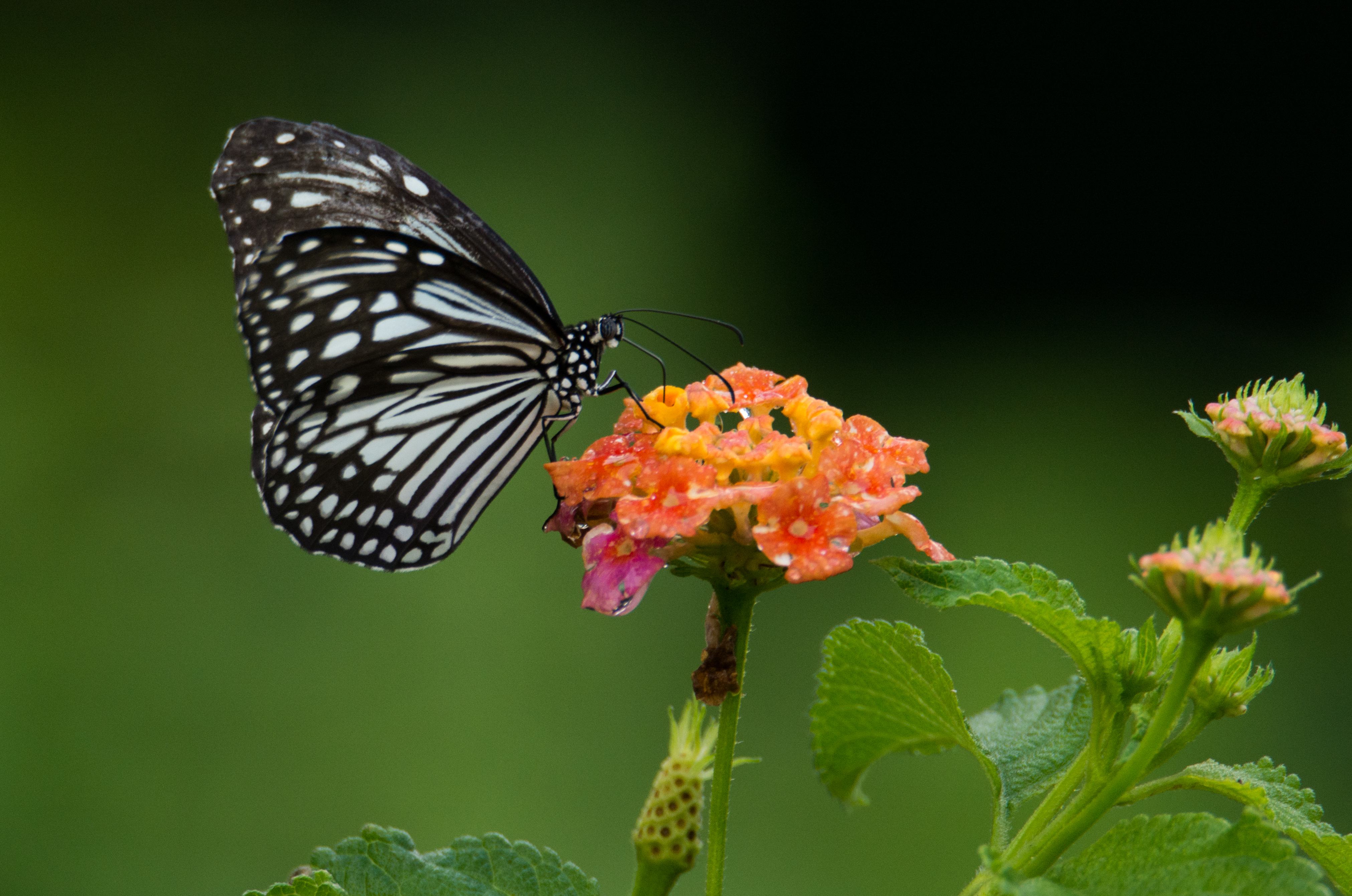 Glassy tiger butterfly perching on a flower